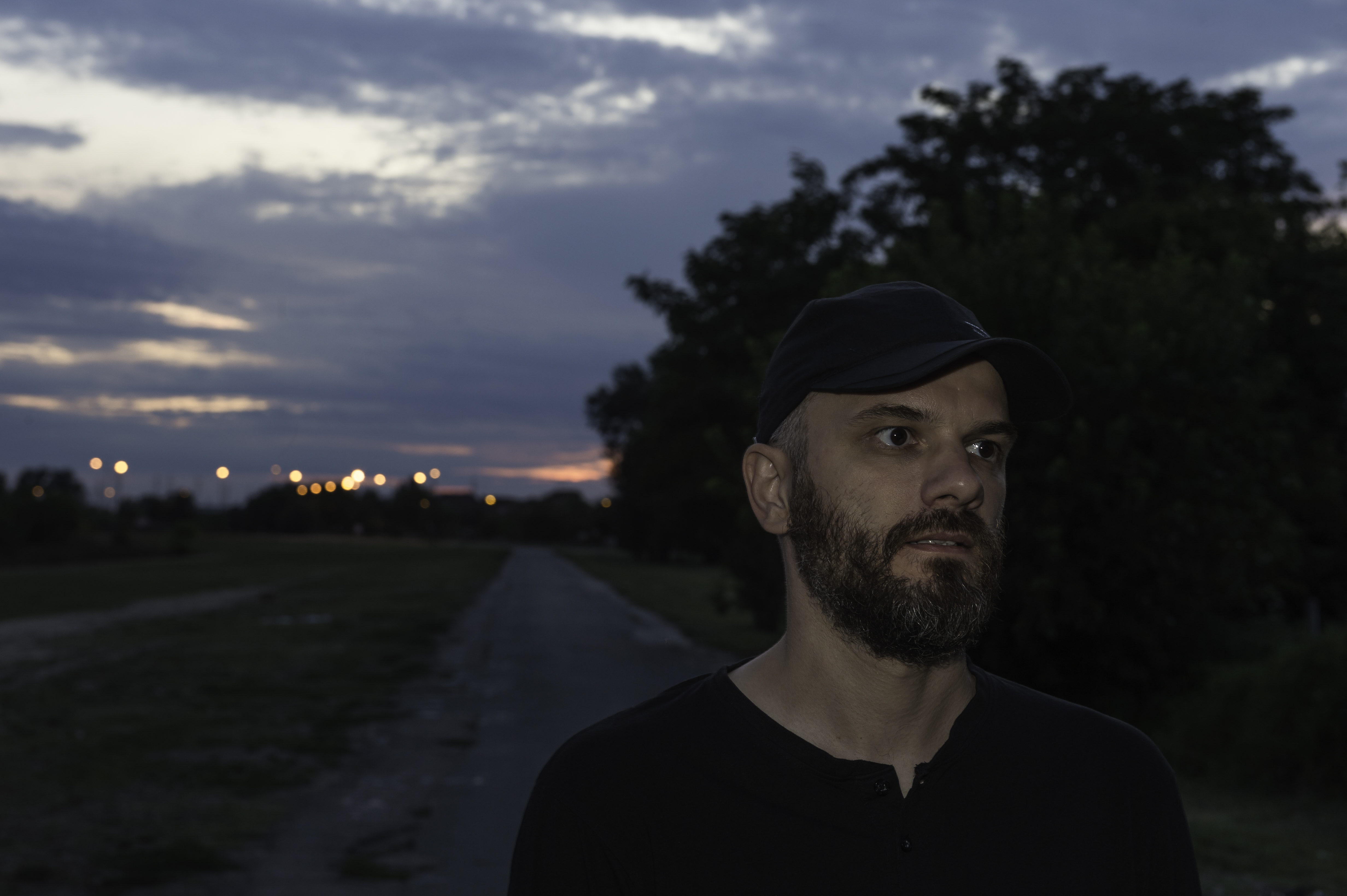 Srđan Srdić, Mikro-naselje, 2017